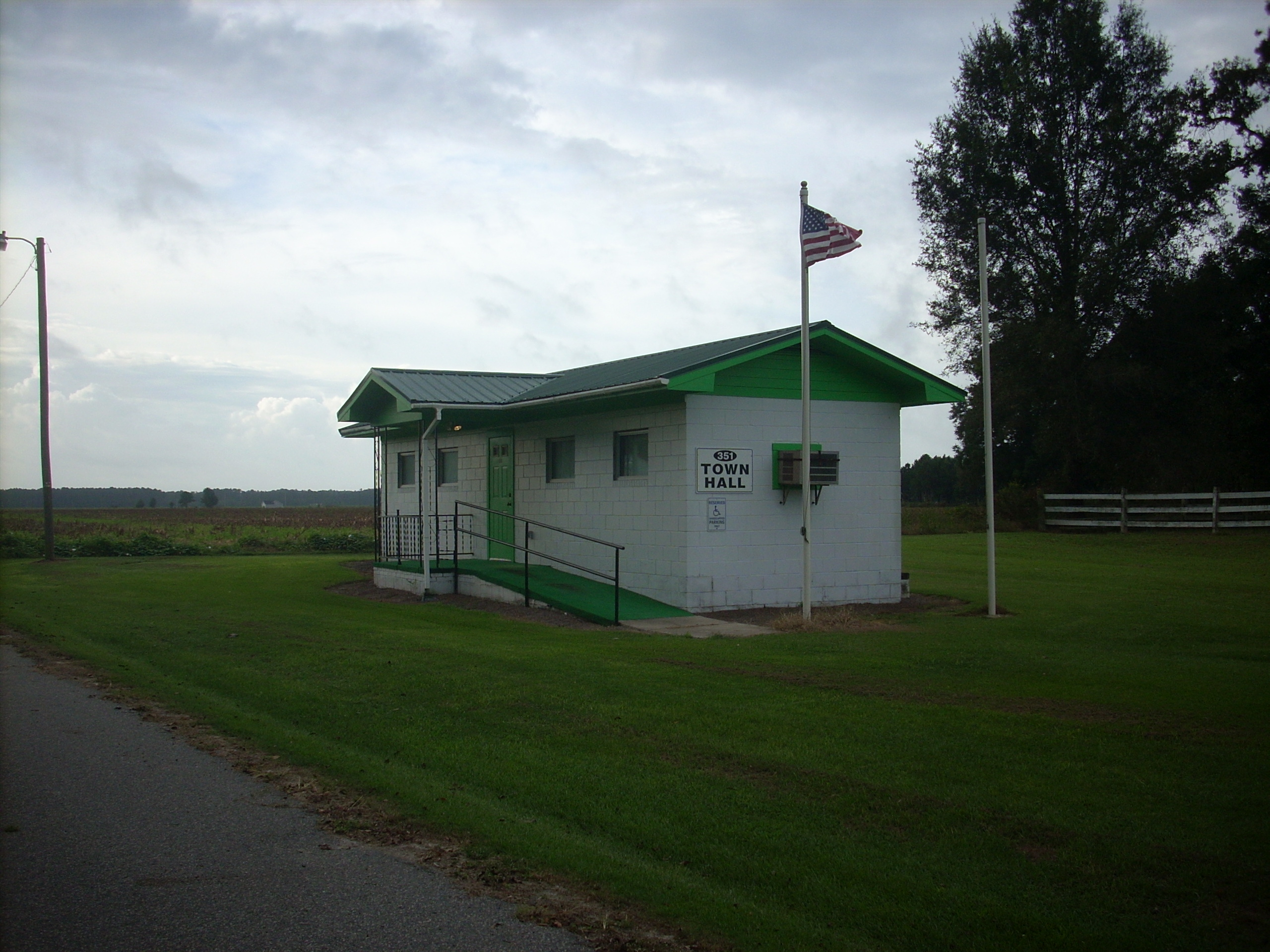 This town hall is surely smaller than many big city mayor's offices and probably even their private bathrooms. Raynham is a tiny little town on U.S. Route 301 in Robeson County, North Carolina